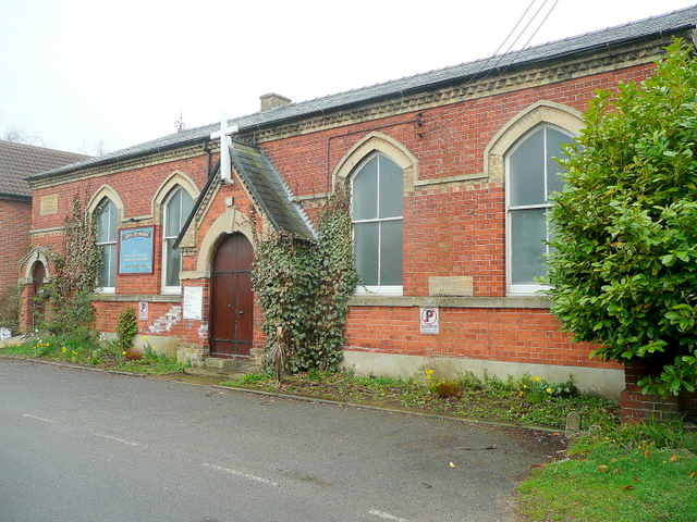 Current use for a Victorian Wesleyan chapel and school.The foundation stone of the chapel was laid in June 1869 and the architects were Bellamy and Hardy of Lincoln. On the High Street, Swinderby.